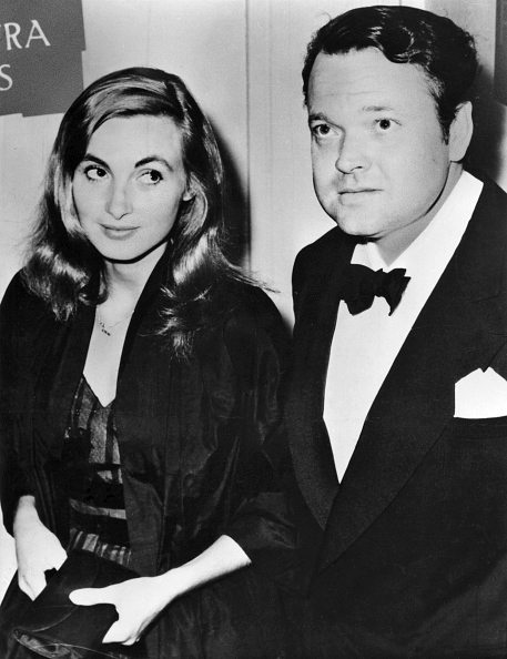 Photograph of Orson Welles and Paola Mori CaptionWelles and Italian FianceeOrson Welles and his 24-year-old fiancee, Italian actress Paola Mori. Mrs. Maria Galimberghi, mother of Miss Mori, said the marriage would take place in England next week. Although the actress has been referred to as Countess Gerfalco, her father said in Italy that the family does not use the title because it never has been registered.